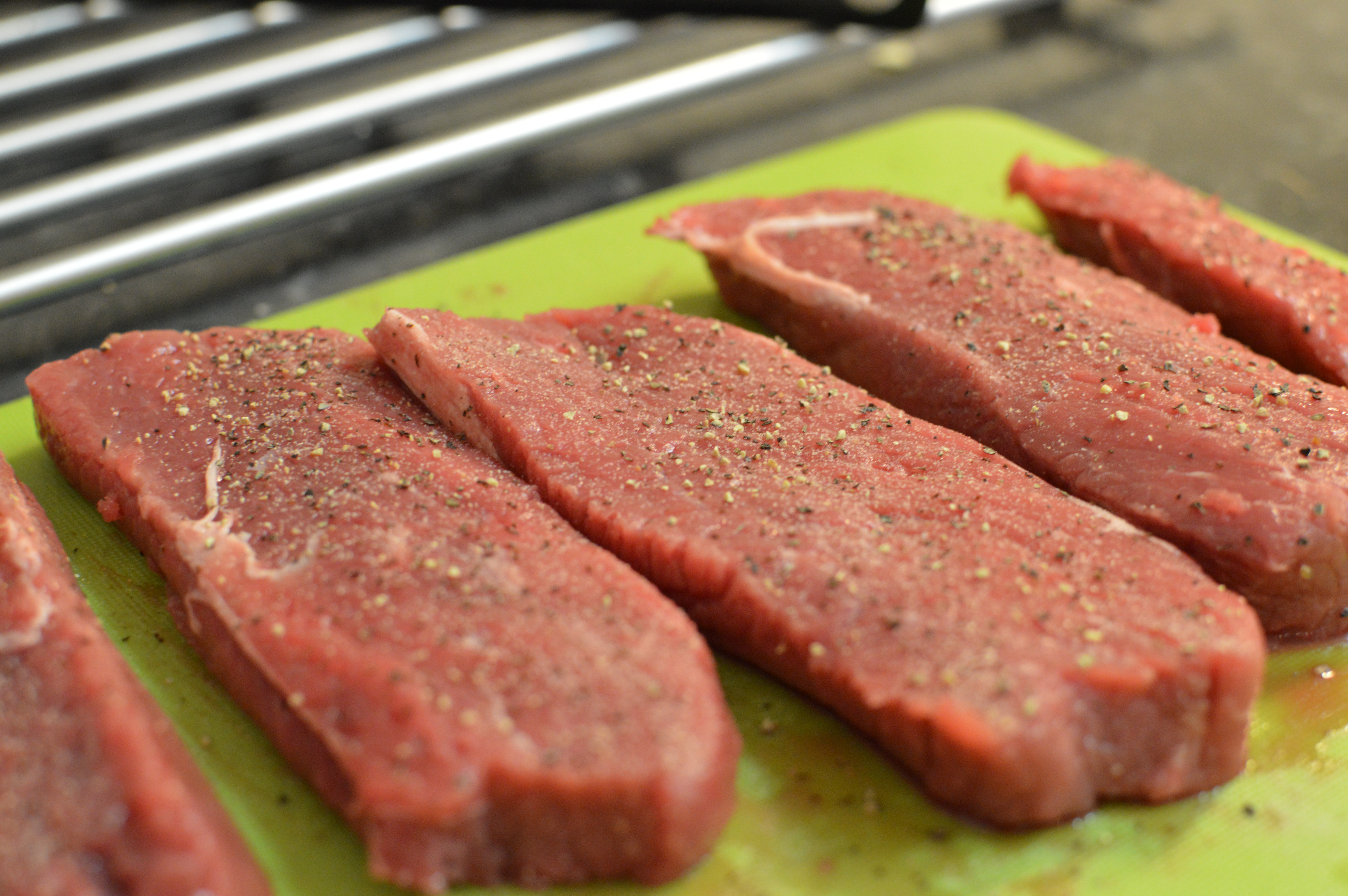 Short loin